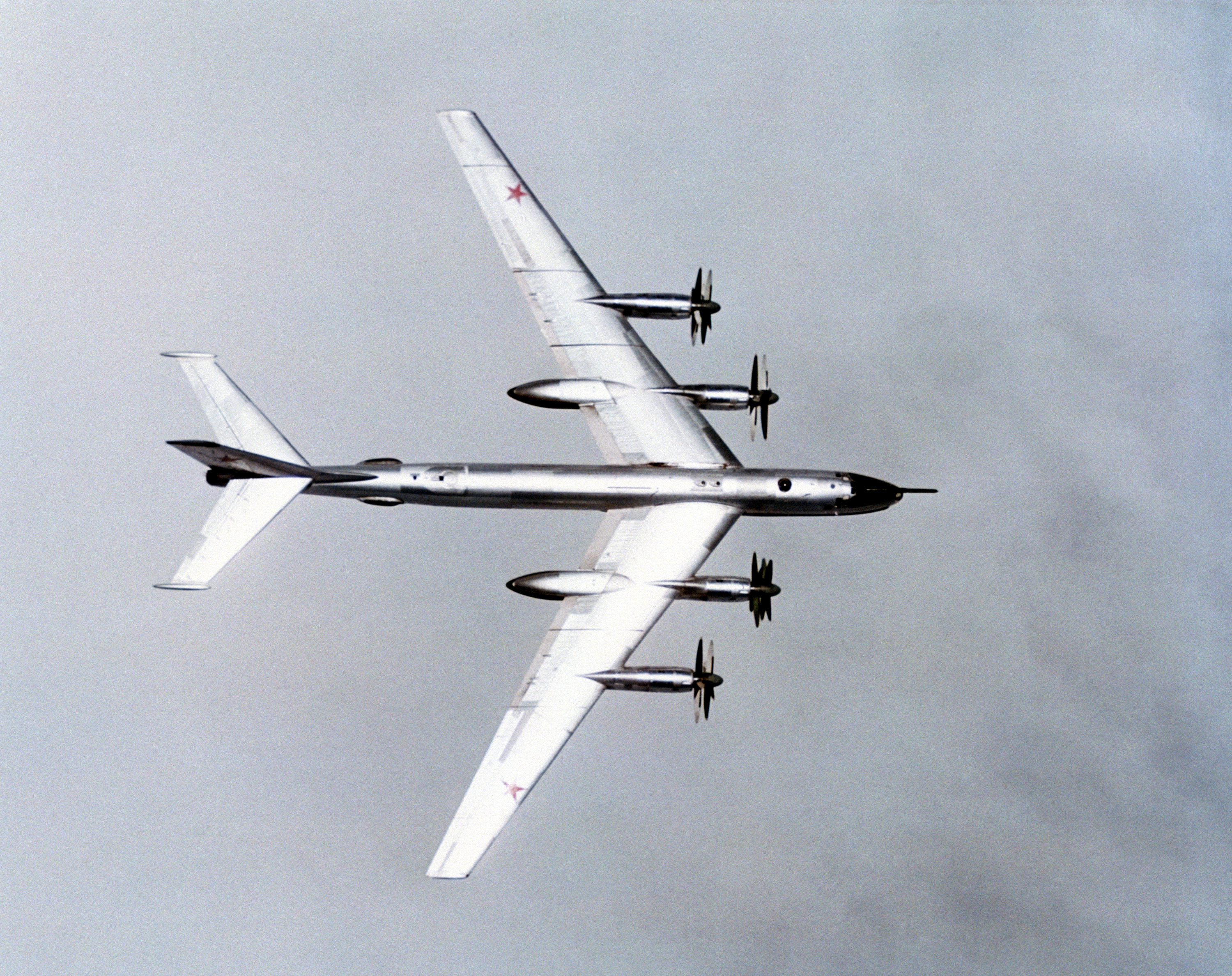 An air-to-air overhead view of a Soviet Tu-95 Bear aircraft. Date Shot: 15 May 1974